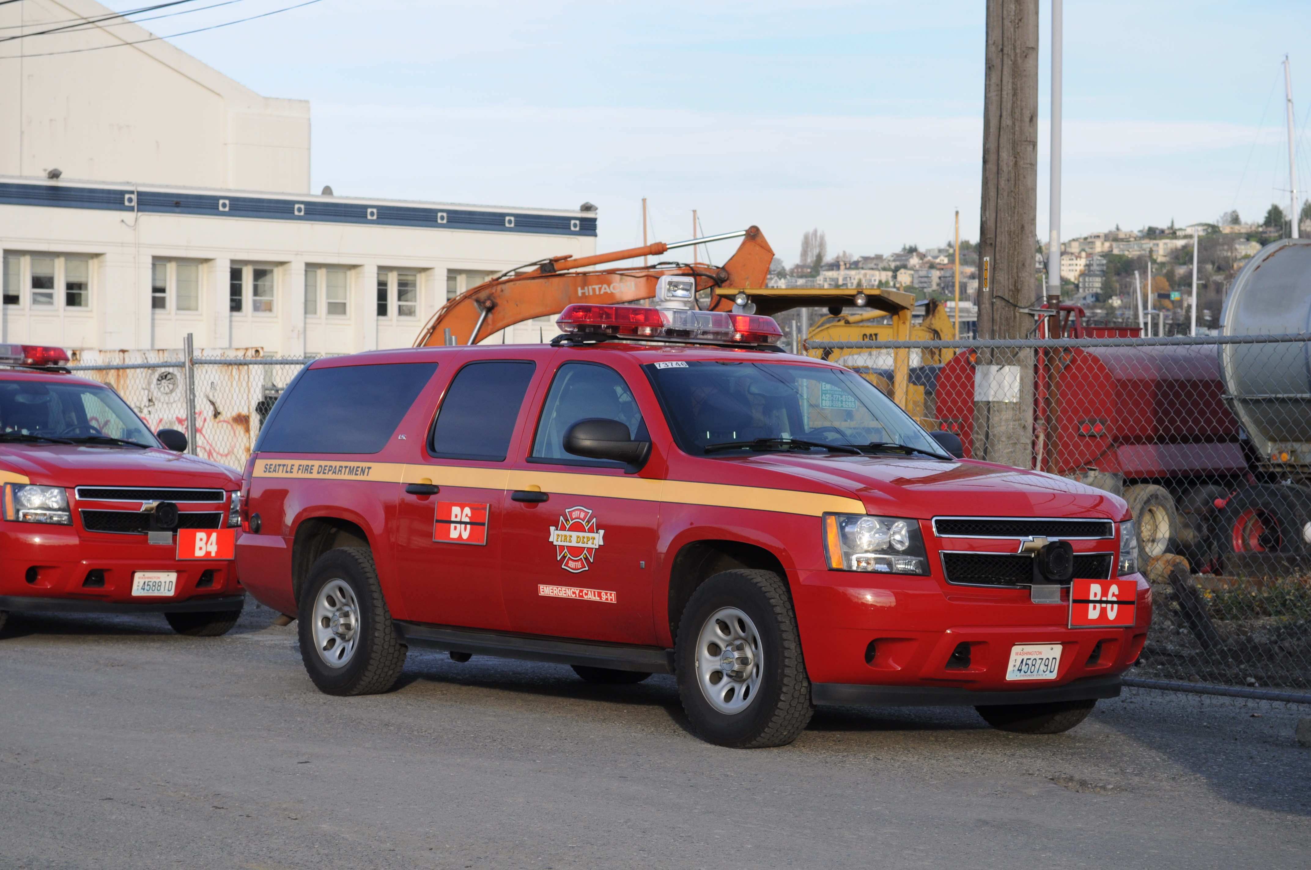 Seattle Fire Department Battalion 6 Command Vehicle (a 2001 Chevy Suburban) parked outside the former Naval Reserve Building, South Lake Union, Seattle, Washington during a memorial for Fire Department Battalion Chief David H. Jacobs, Jr.